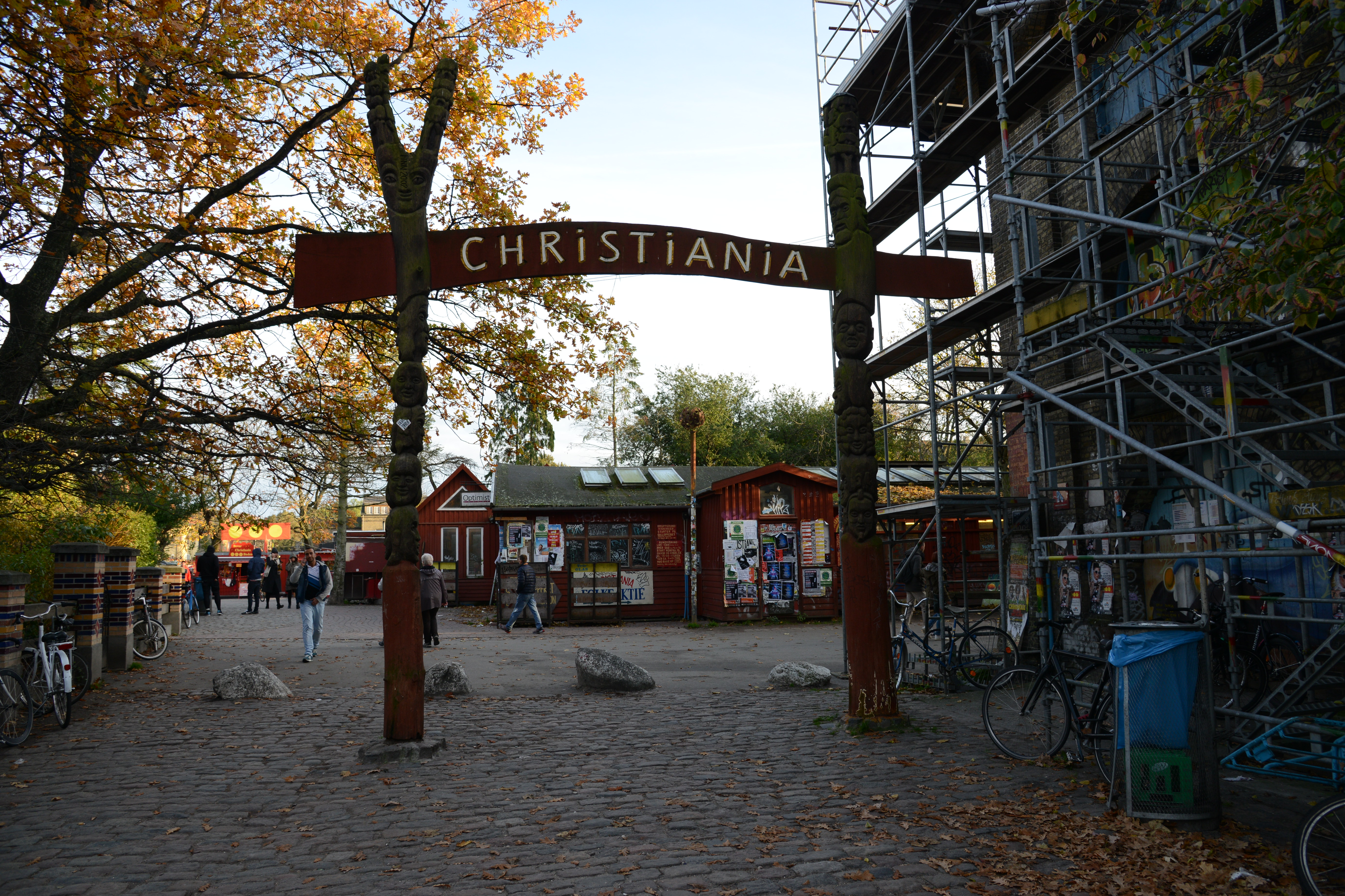 Christiania, also known as Freetown Christiania (Danish: Fristaden Christiania[needs IPA] or Staden), is a self-proclaimed autonomous anarchist district of about 850 to 1,000 residents, covering 34 hectares (84 acres) in the borough of Christianshavn in the Danish capital city of Copenhagen. It was temporarily closed by residents in April 2011 while discussions continued with the Danish government about its future, but then re-opened to the public. Christiania has been a source of controversy since its creation in a squatted military area in 1971. Its cannabis trade was tolerated by authorities until 2004. In the years following 2004, measures for normalizing the legal status of the community led to conflicts, police raids and negotiations